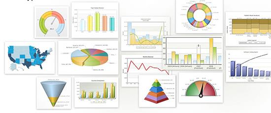 Create Interactive Charts and Graphs